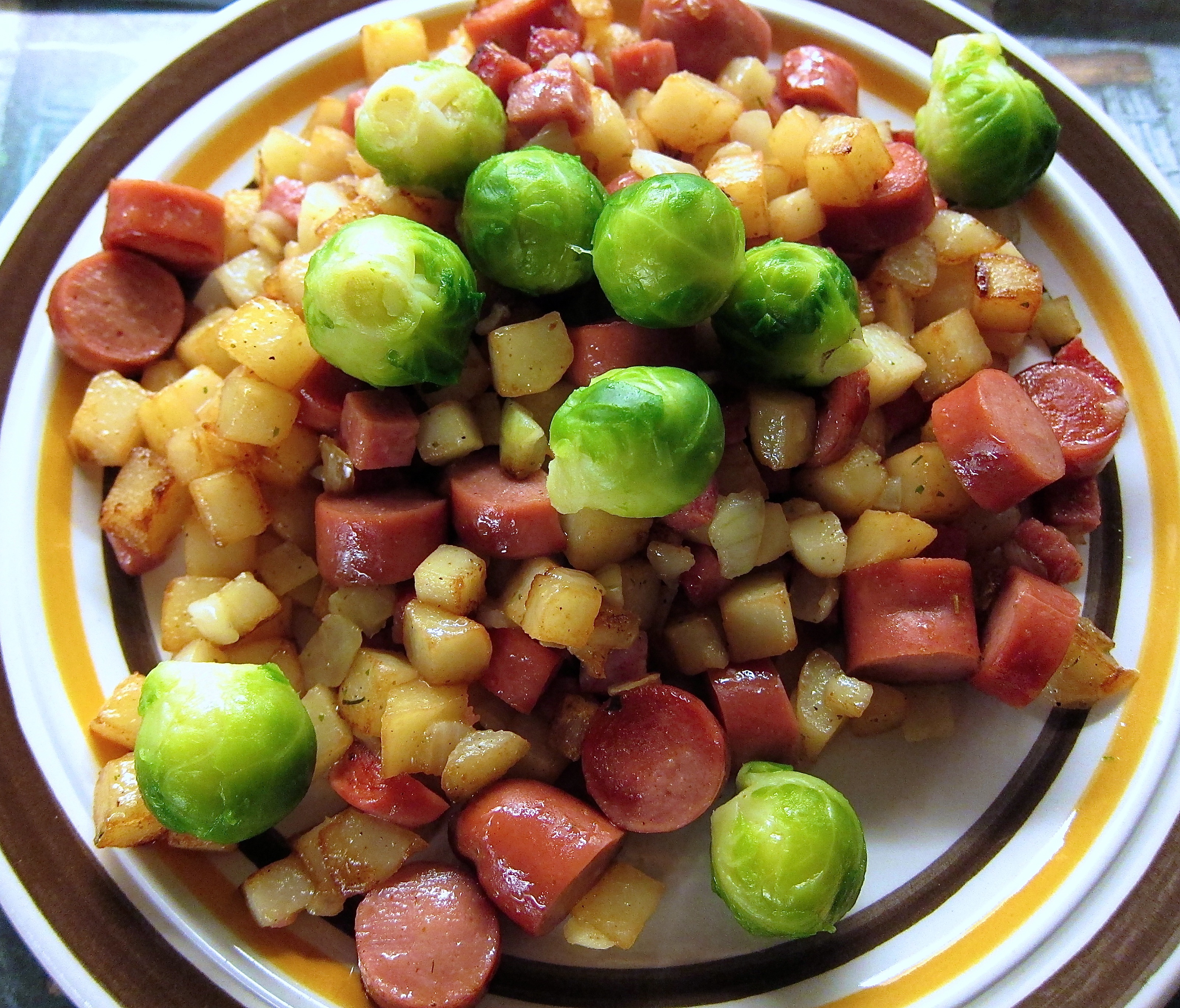 Brussels sprout in pyttipanna.